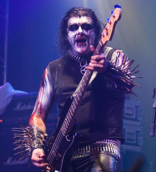 Frank Watkins, bajista de Gorgoroth.